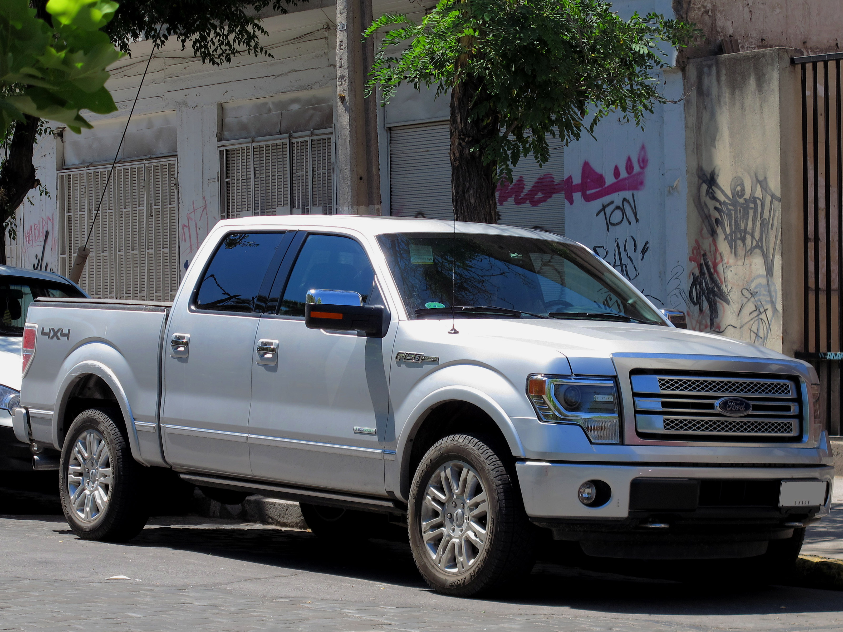 EcoBoost is the word Ford uses for "turbo"